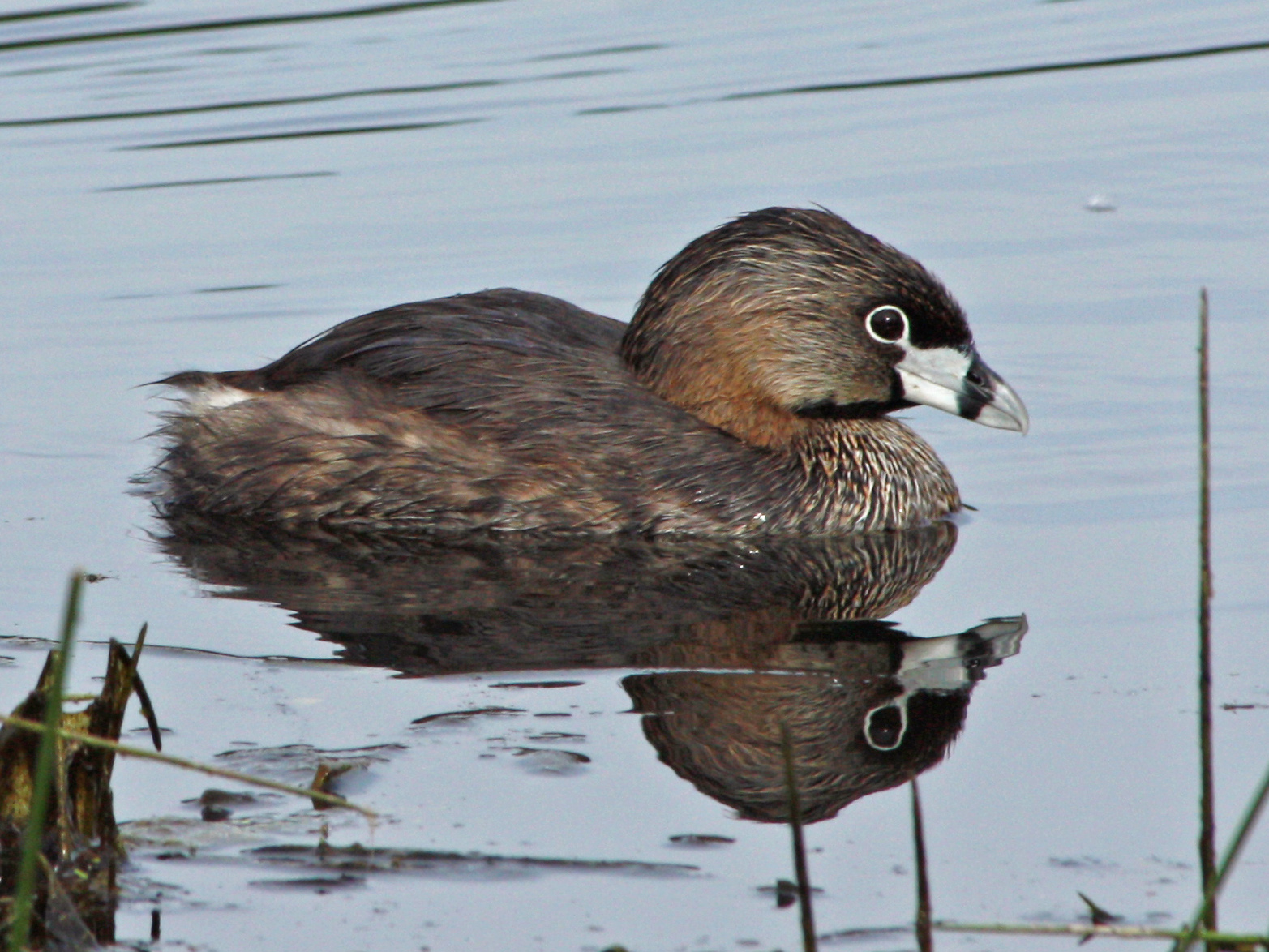 Pied-billed Grebe